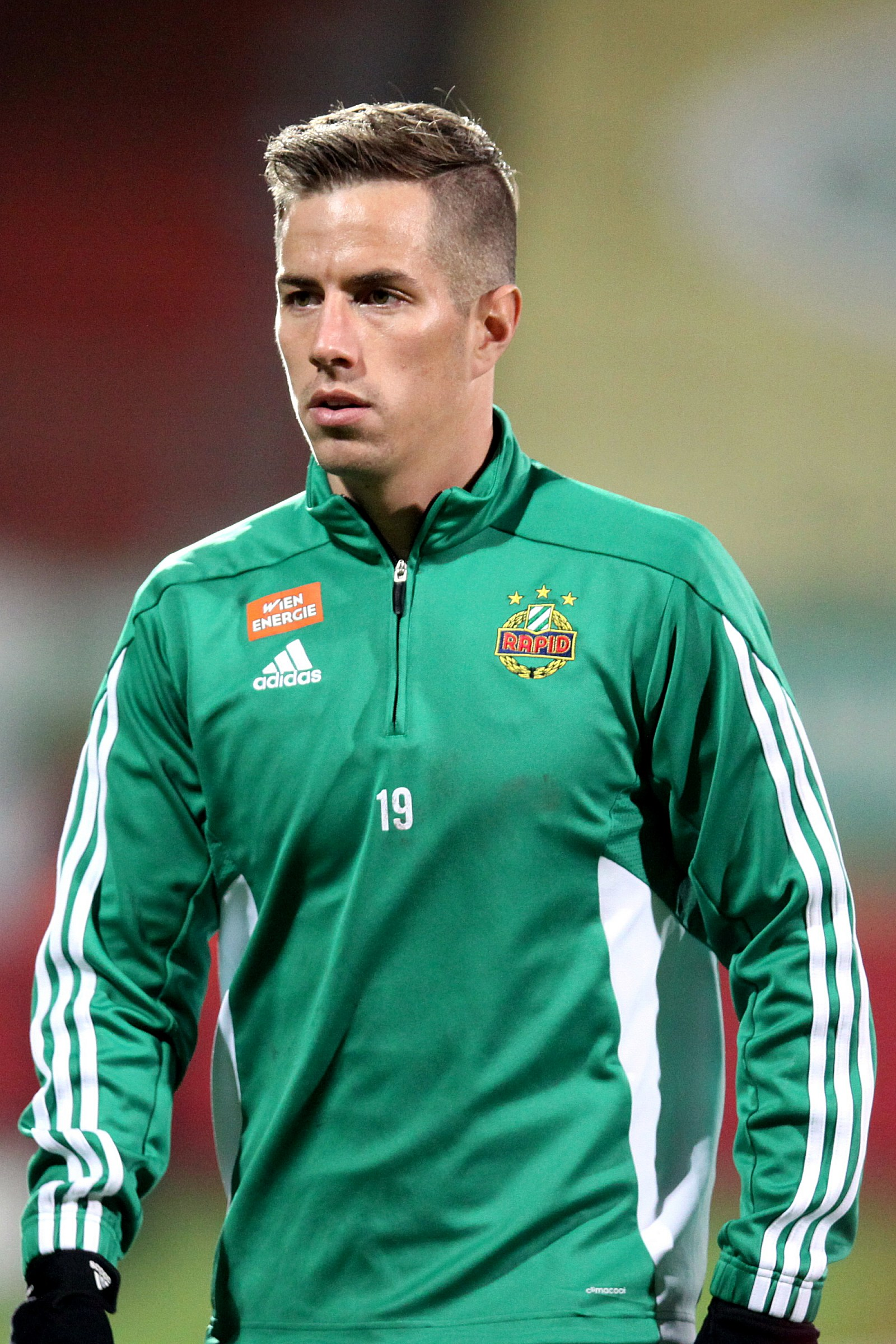 Match of the Austrian Football Bundesliga – FC Admira Wacker Mödling (red shirts) vs. SK Rapid Wien (white shirts) 2-1 (0-1) on 2015-12-02 in Bundesstadion Sudstadt – The photo shows Stefan Nutz (SK Rapid Wien).